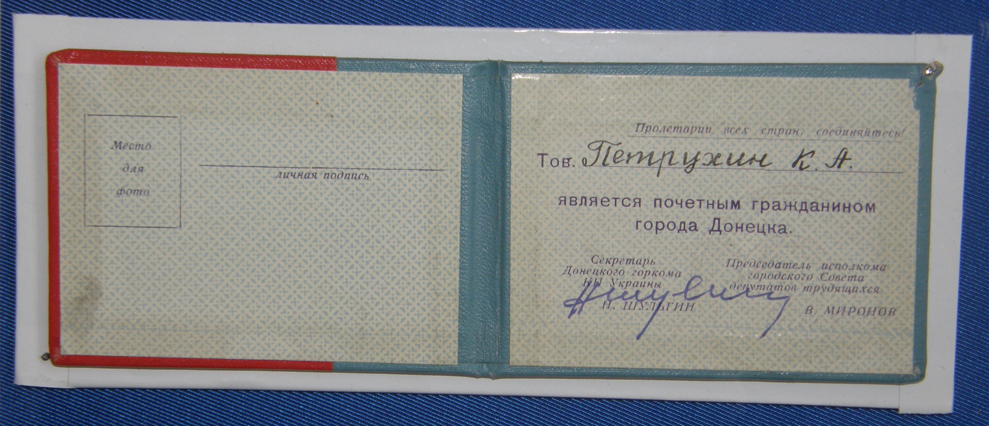 Museum of History of Donetsk metallurgical plant